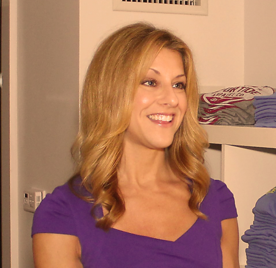 Bonnie Berstein, SPORTSCENTER